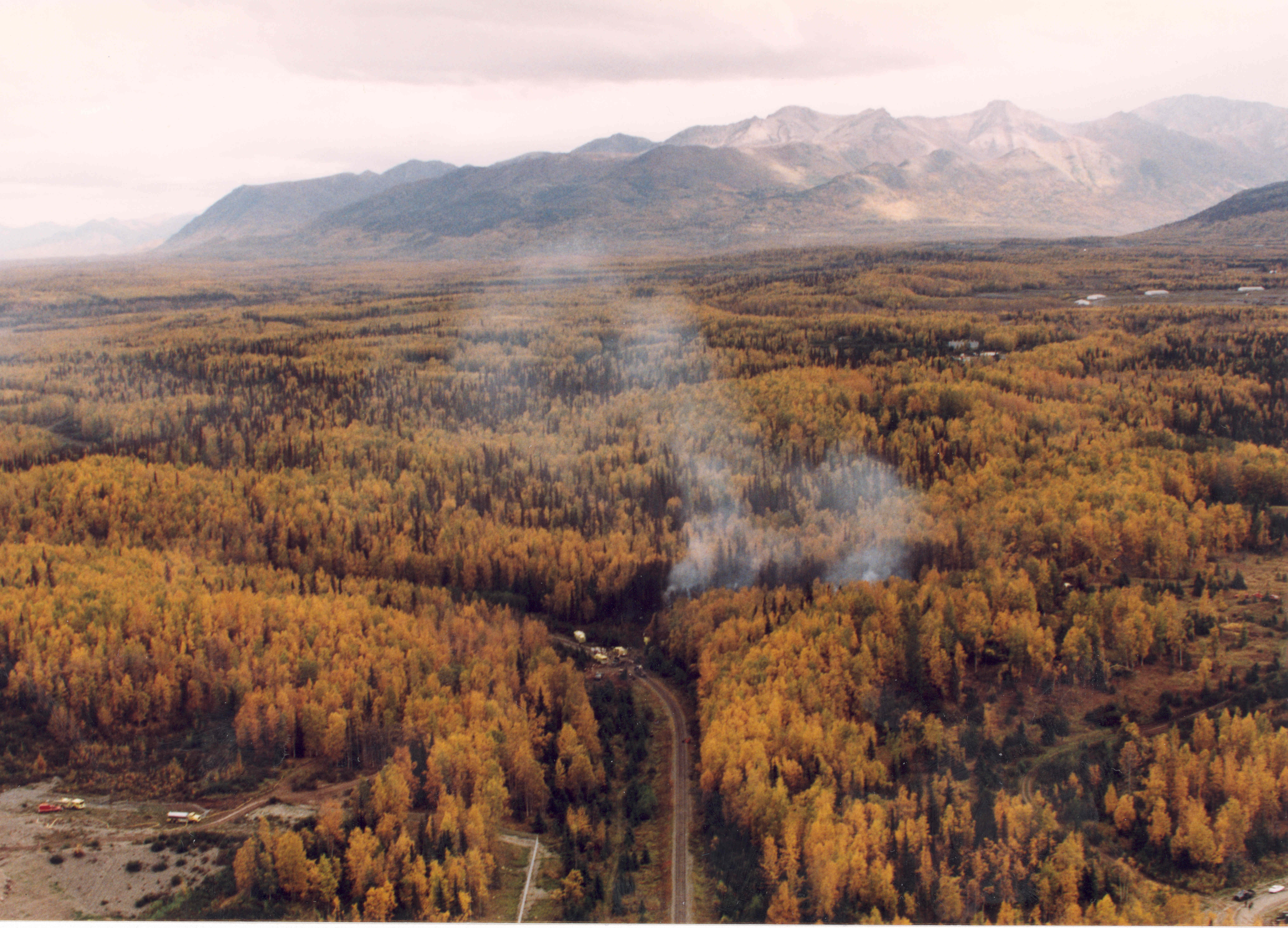 Yukla-27 AWACS crash